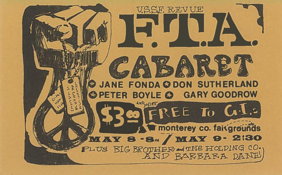 Ticket to FTA's performances in Monterey, California May 8 & 9, 1971 with Jane Fonda, Don Sutherland, Peter Boyle, Gary Goodrow, Barbara Dane and Big Brother and the Holding Company.